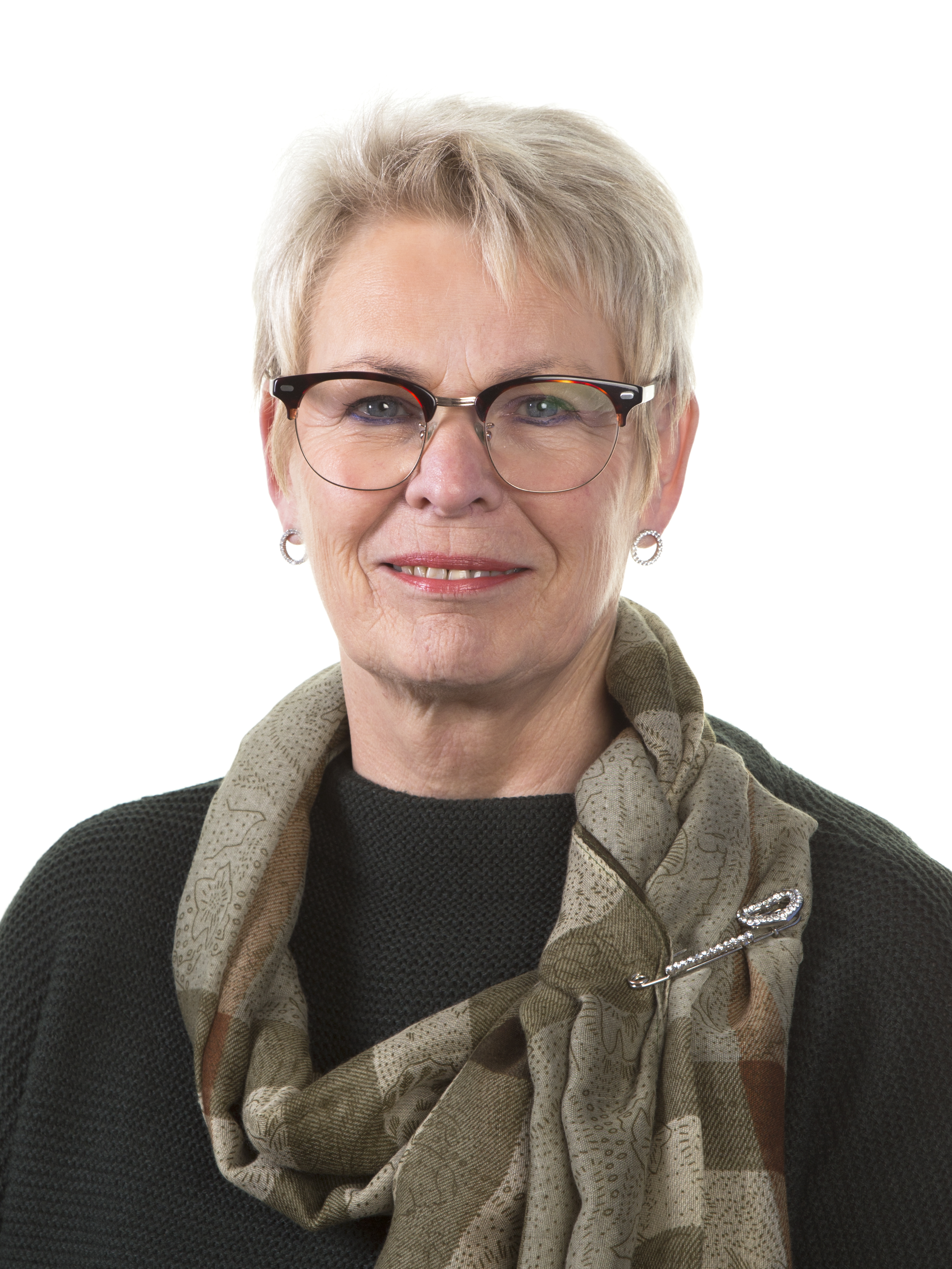 Jette Skive election 2017